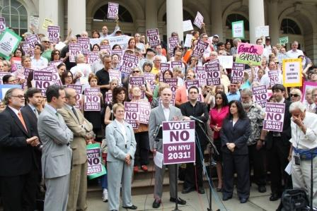 Opponents of NYU 2031 rally at NYC Hall in June 2012.